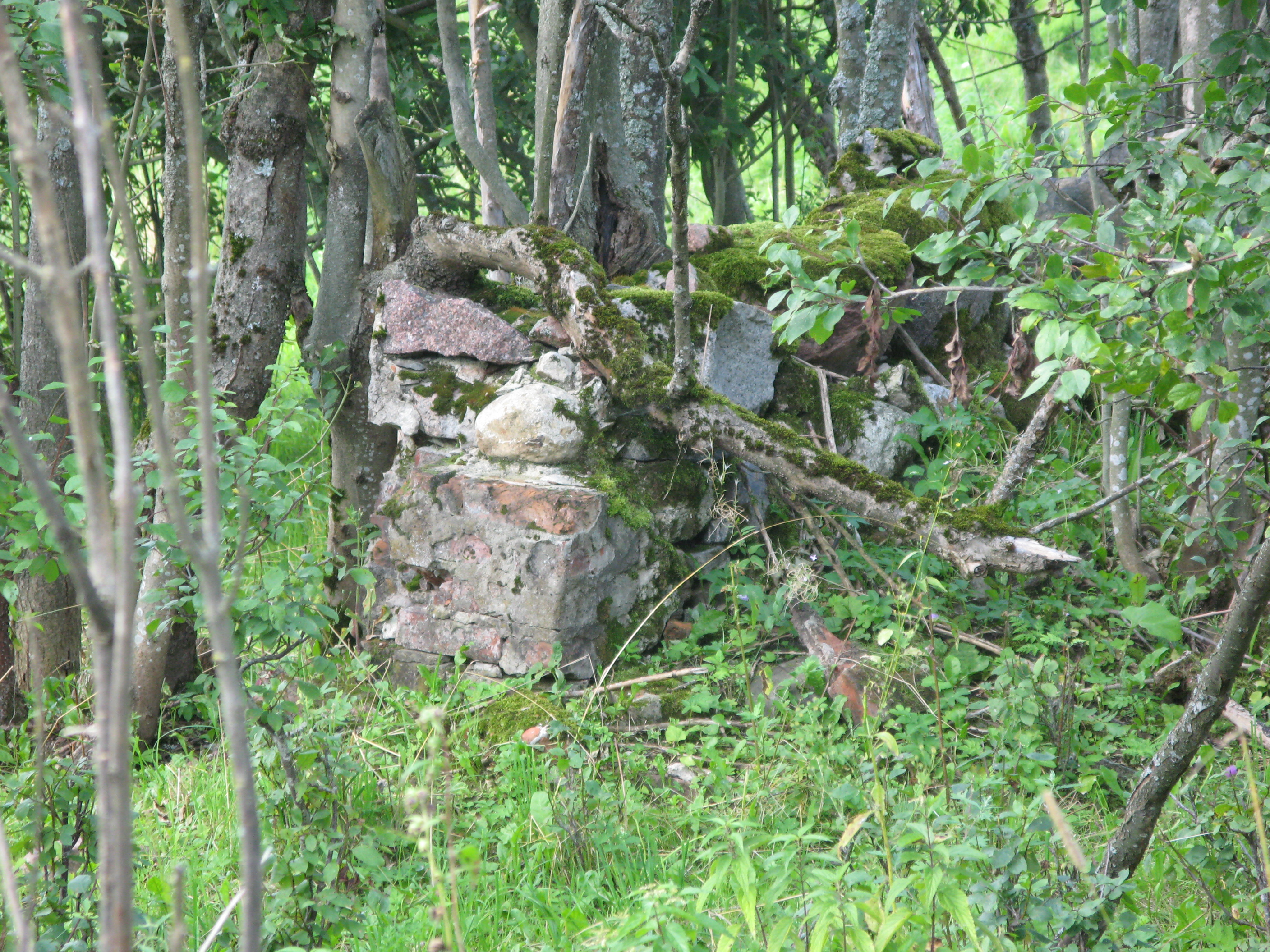 ruins of town of Golubie, POland, Suwalki region